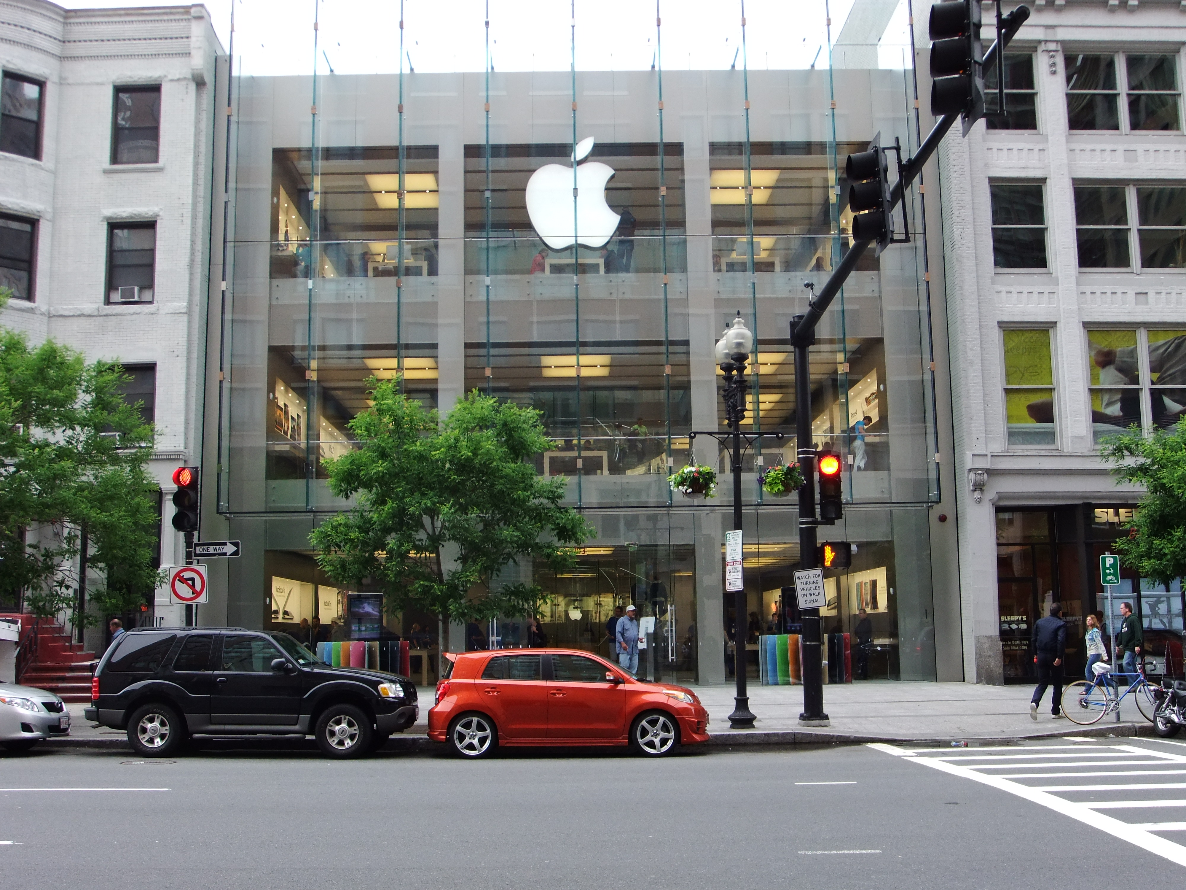 Photo of the front of the Apple Store in Boylston Street in Boston, Massachusetts.